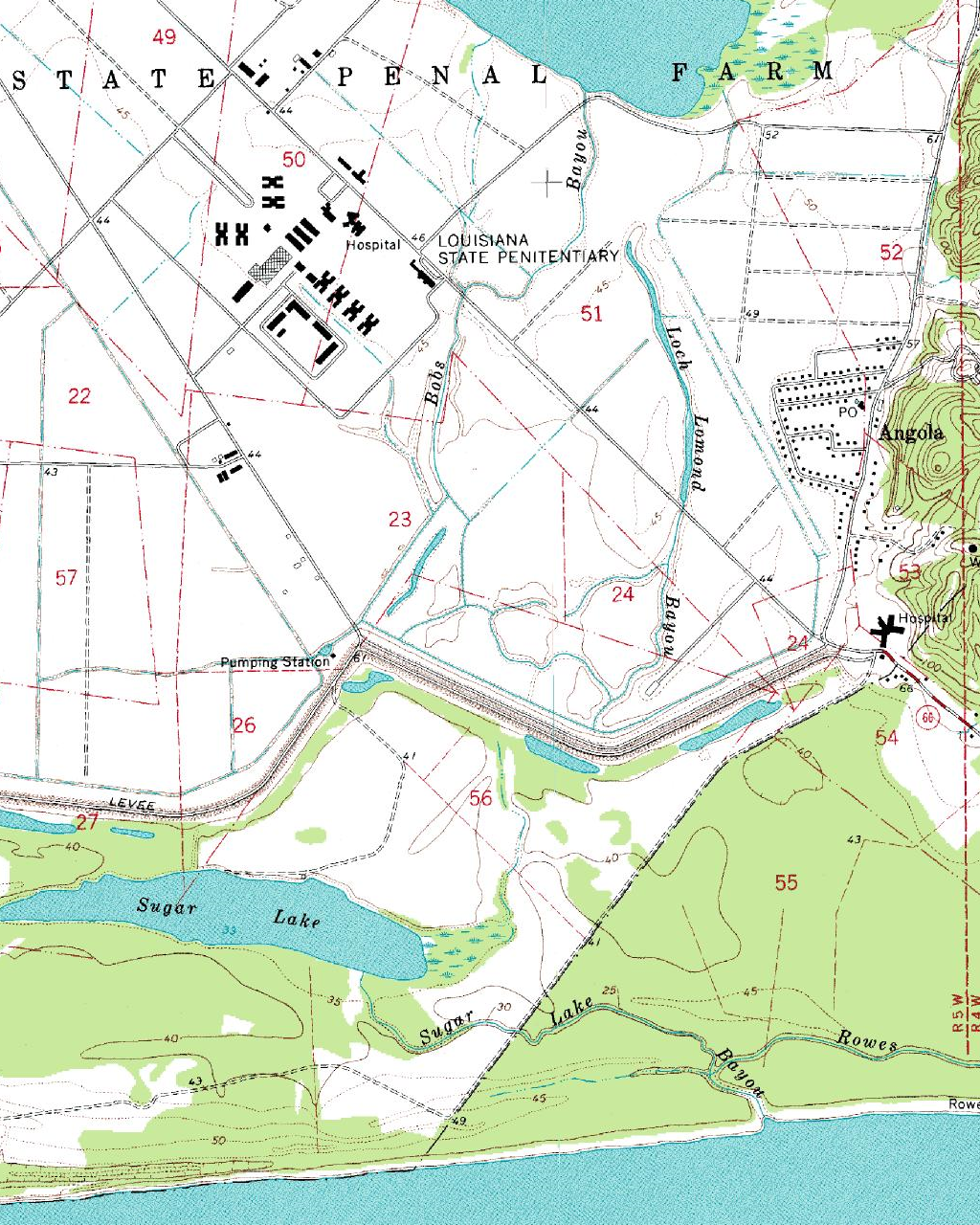 USGS topographic map of Louisiana State Penitentiary in West Feliciana Parish, Louisiana.